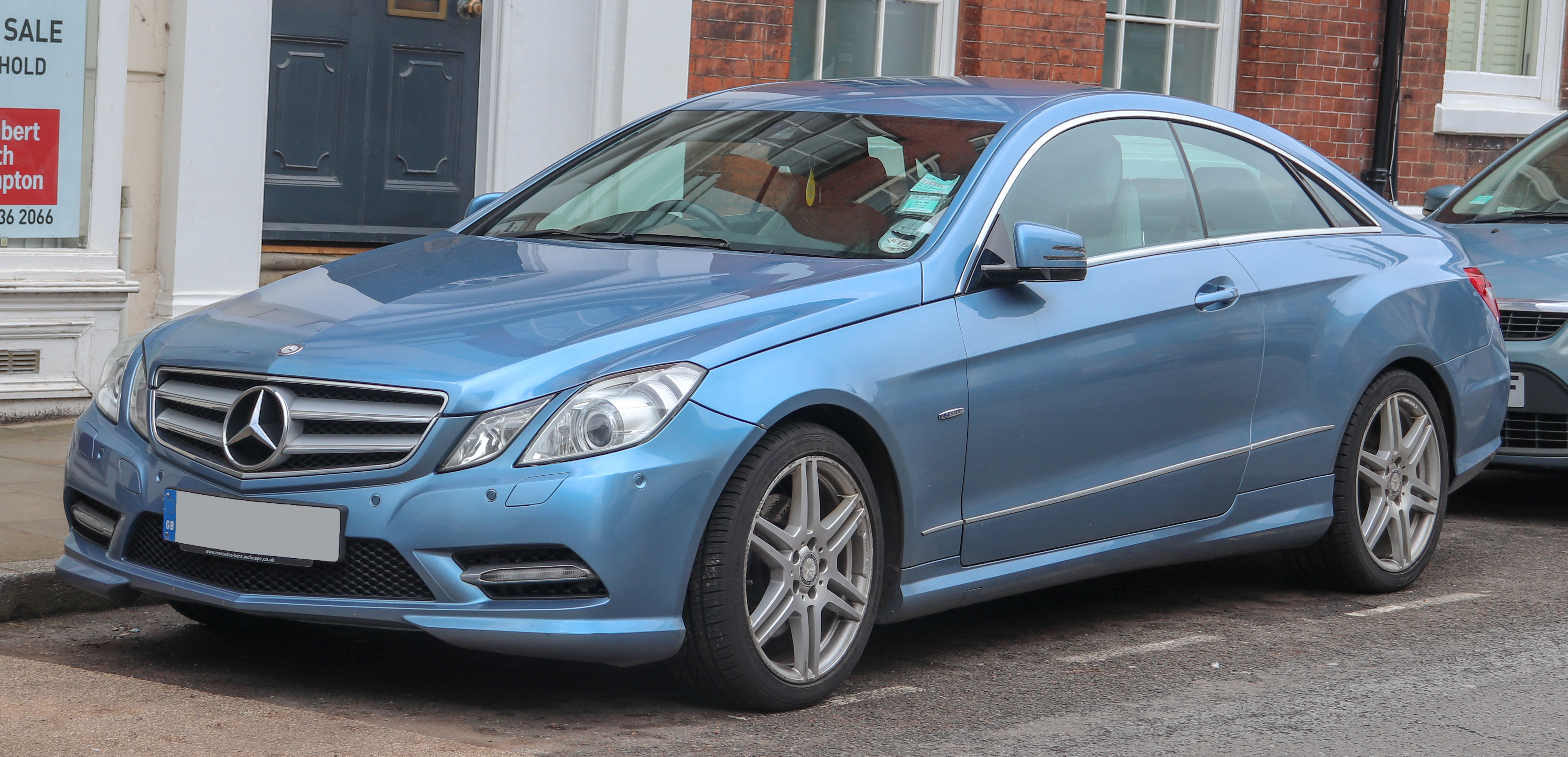 2011 Mercedes-Benz E250 Sport CDi BlueEFFICIENCY Coupe 2.1 Front Taken in Warwick